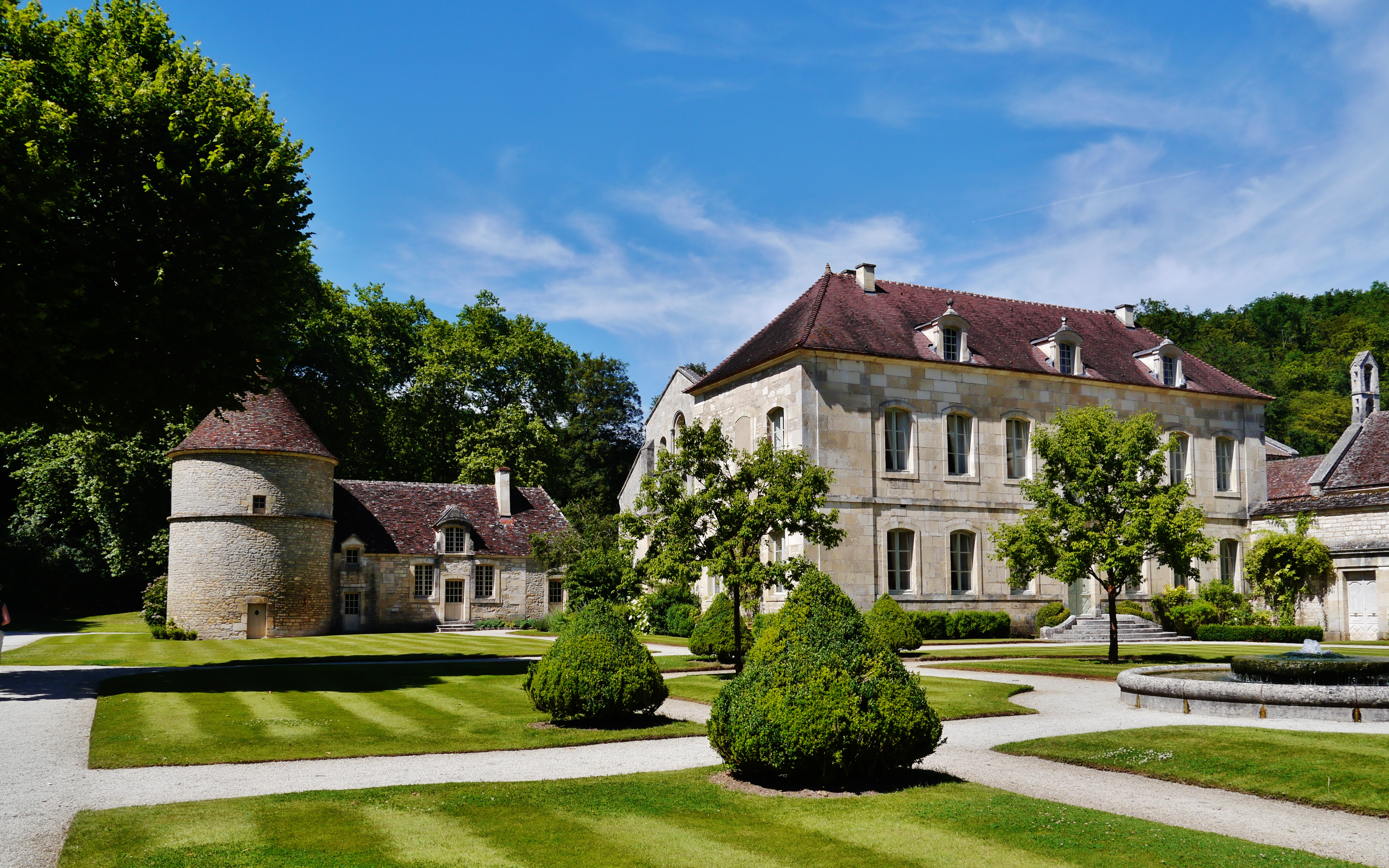 Courtyards of Fontenay Abbey, Marmagne, Département of Yonne, Region of Burgundy (now Burgundy-Franche-Comté), France